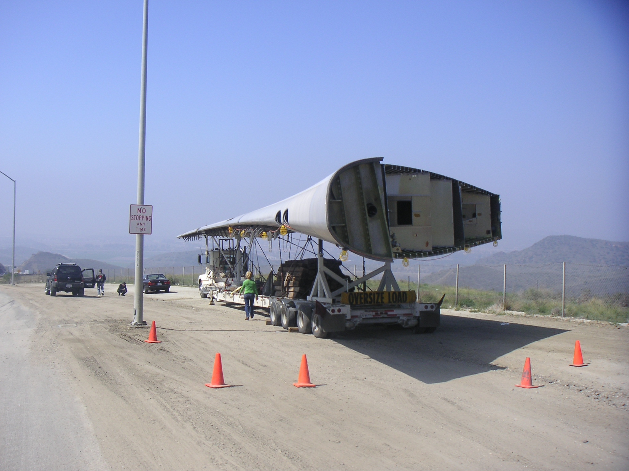 The 747 wing on specially equipped tractor trailer.